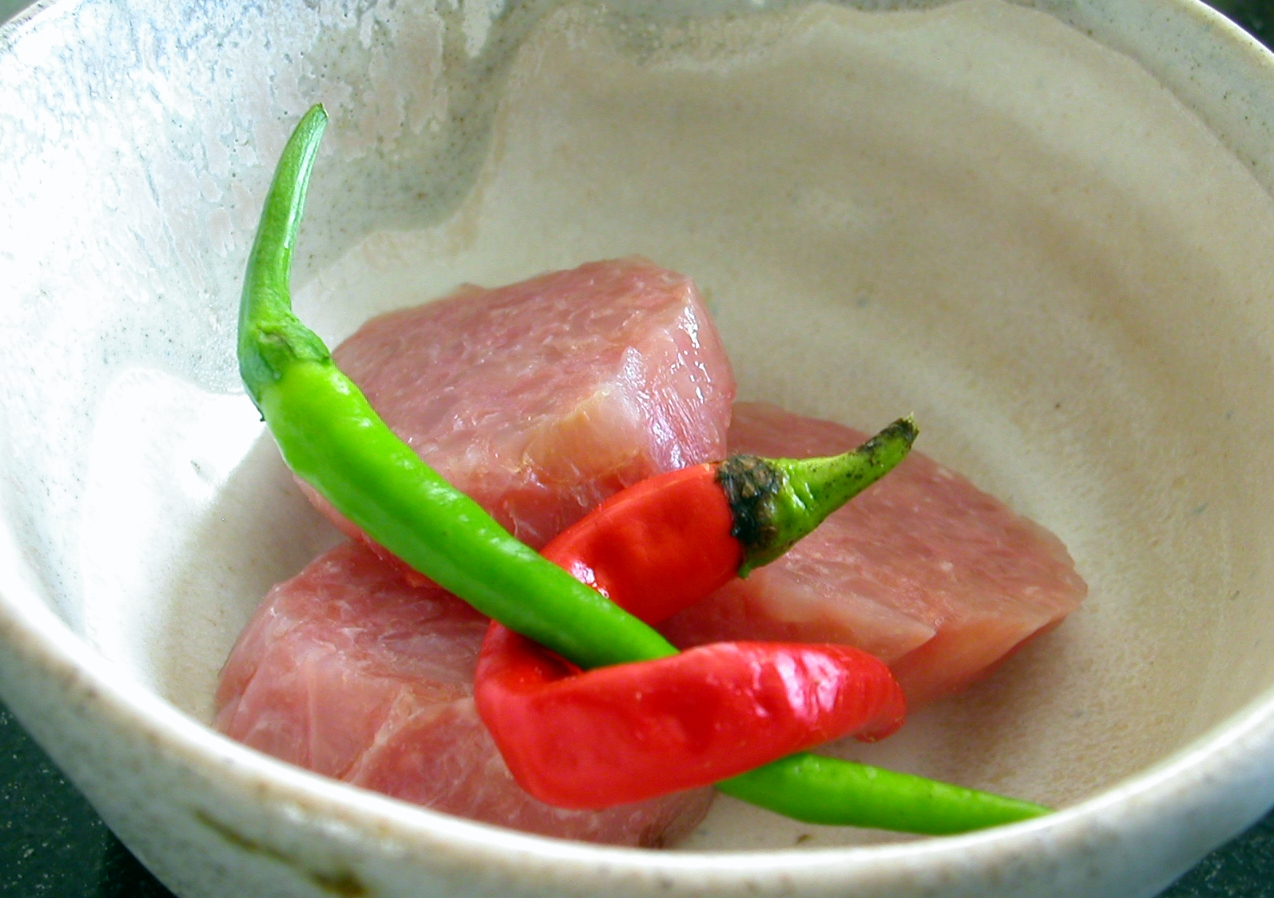 Som mou, a Lao "ham" dish.